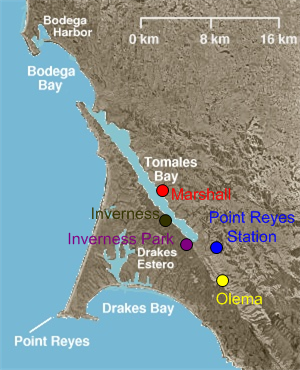 West Marin County (California) towns. Created on 9/10/2005 by George William Herbert. Modified from image by Matthew Trump (see below). As with his original image, this modification is licenced under the GFDL. Based on: Image:Wpdms usgs photo tomales bay.jpg © 2004 Matthew Trump